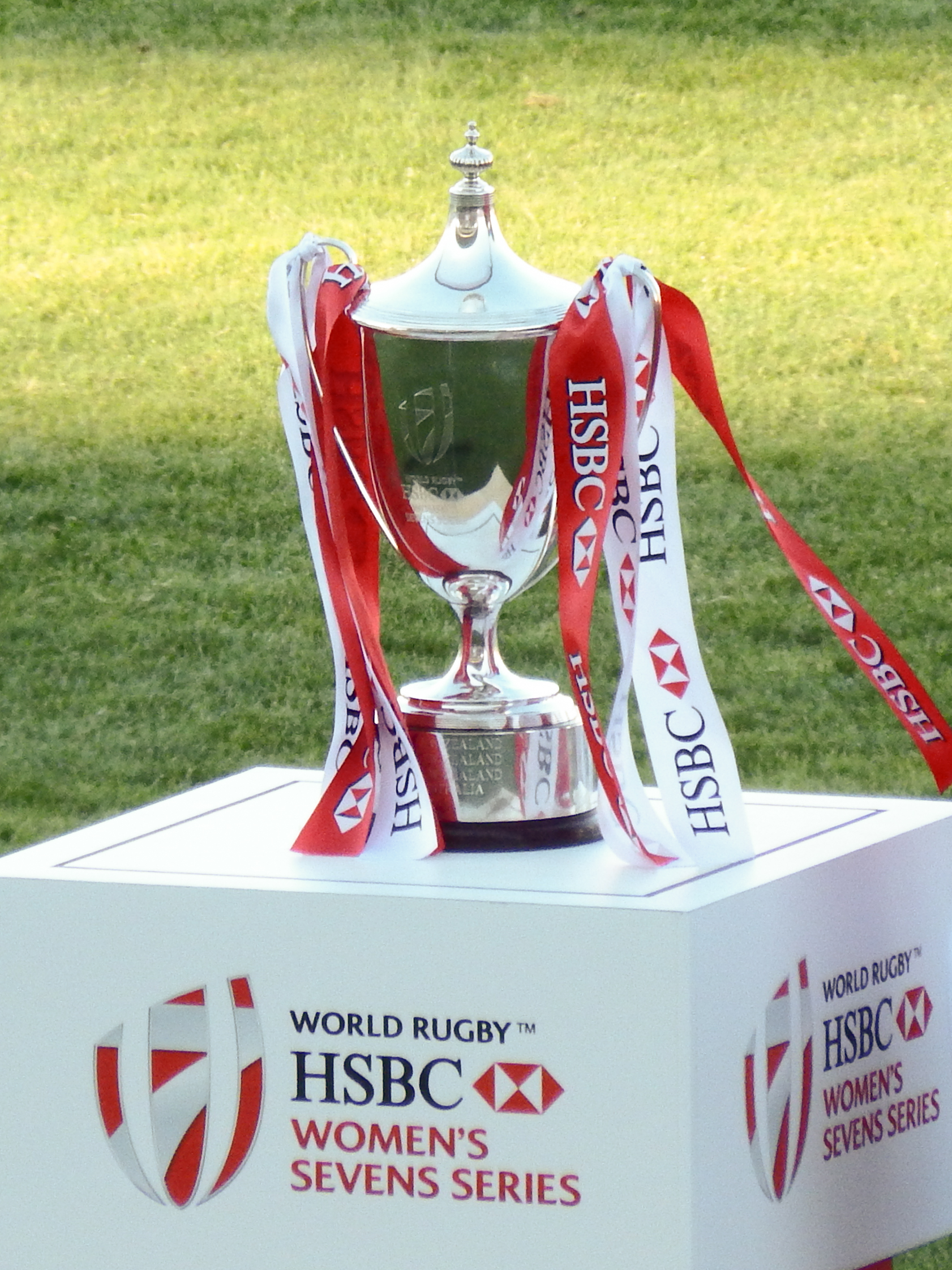 2017 France Women's Sevens — 25 June 2017, Stade Gabriel Montpied. Match between: New Zealand women's national rugby sevens team — Australia women's national rugby sevens team